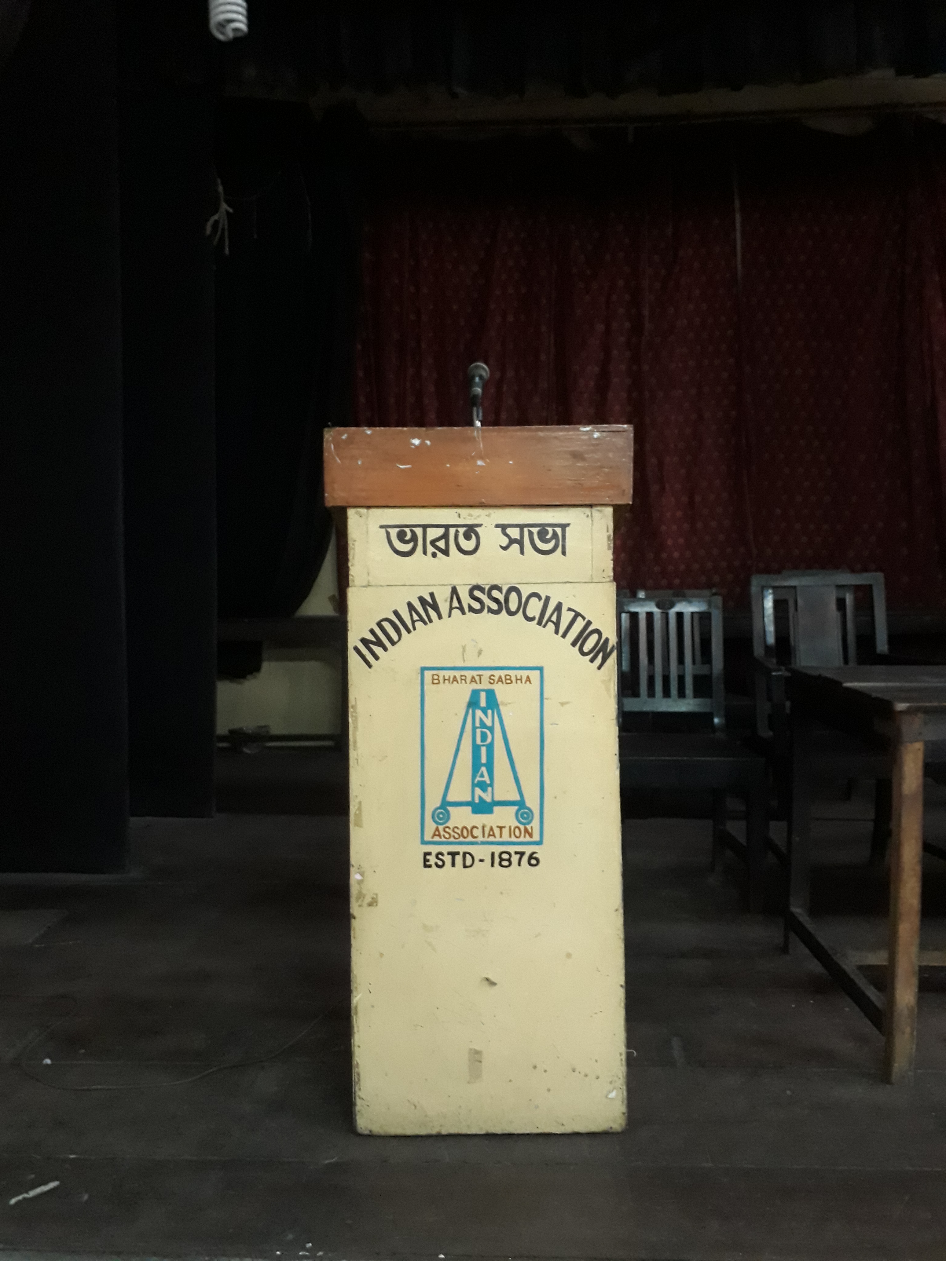 Indian Association or Bharat Sabha Hall, a Heritage building in Kolkata